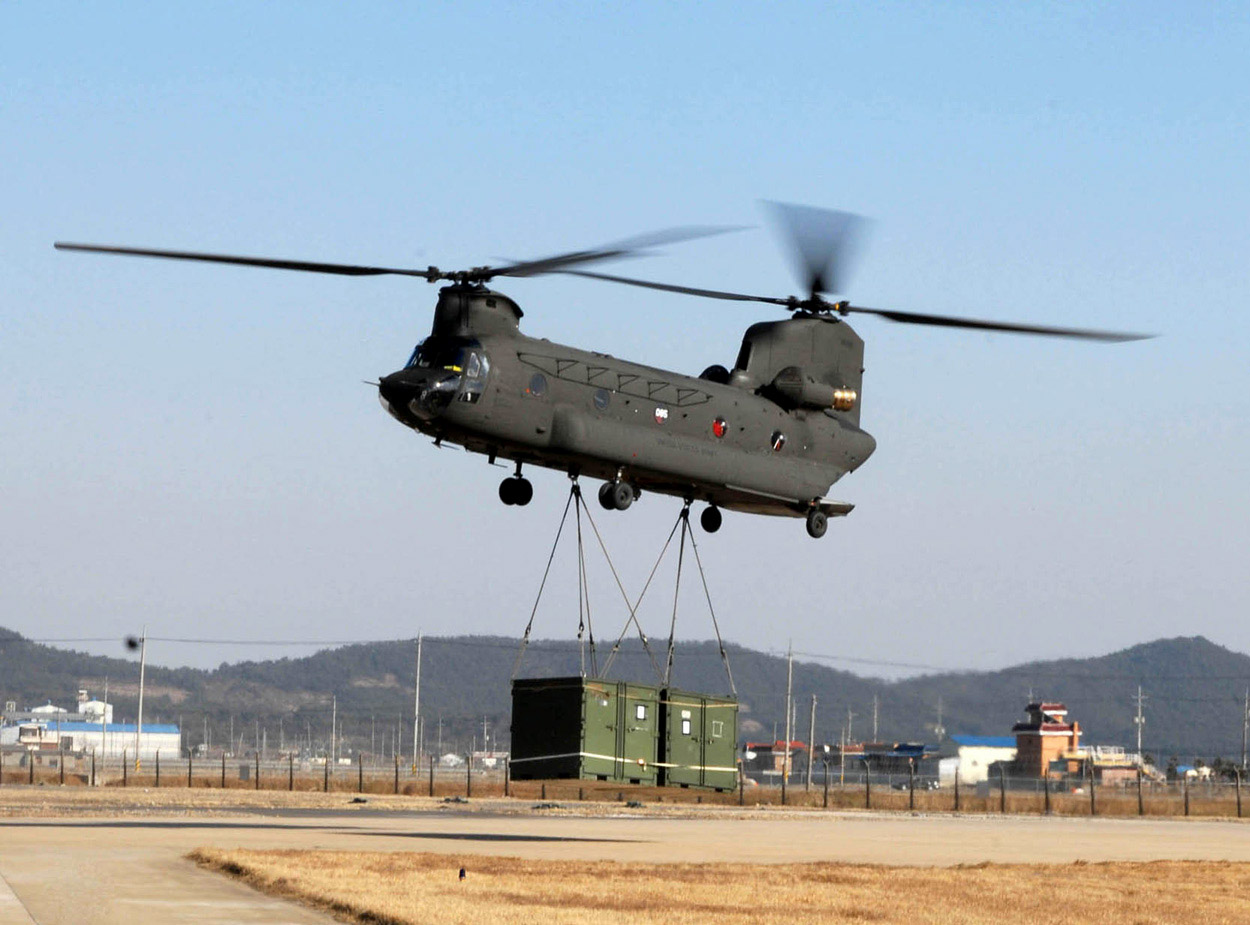 KUNSAN AIR BASE, South Korea -- A CH-47 Chinook helicopter drops off troops, vehicles and additional supplies here Mar. 1. The Chinook arrived from Camp Humphrey’s, Bravo Company 4-2, as part of the Key Resolve/Foal Eagle exercise, enhancing combat readiness and joint interoperability. (U.S. Air Force photo/Senior Airman Steven R. Doty)